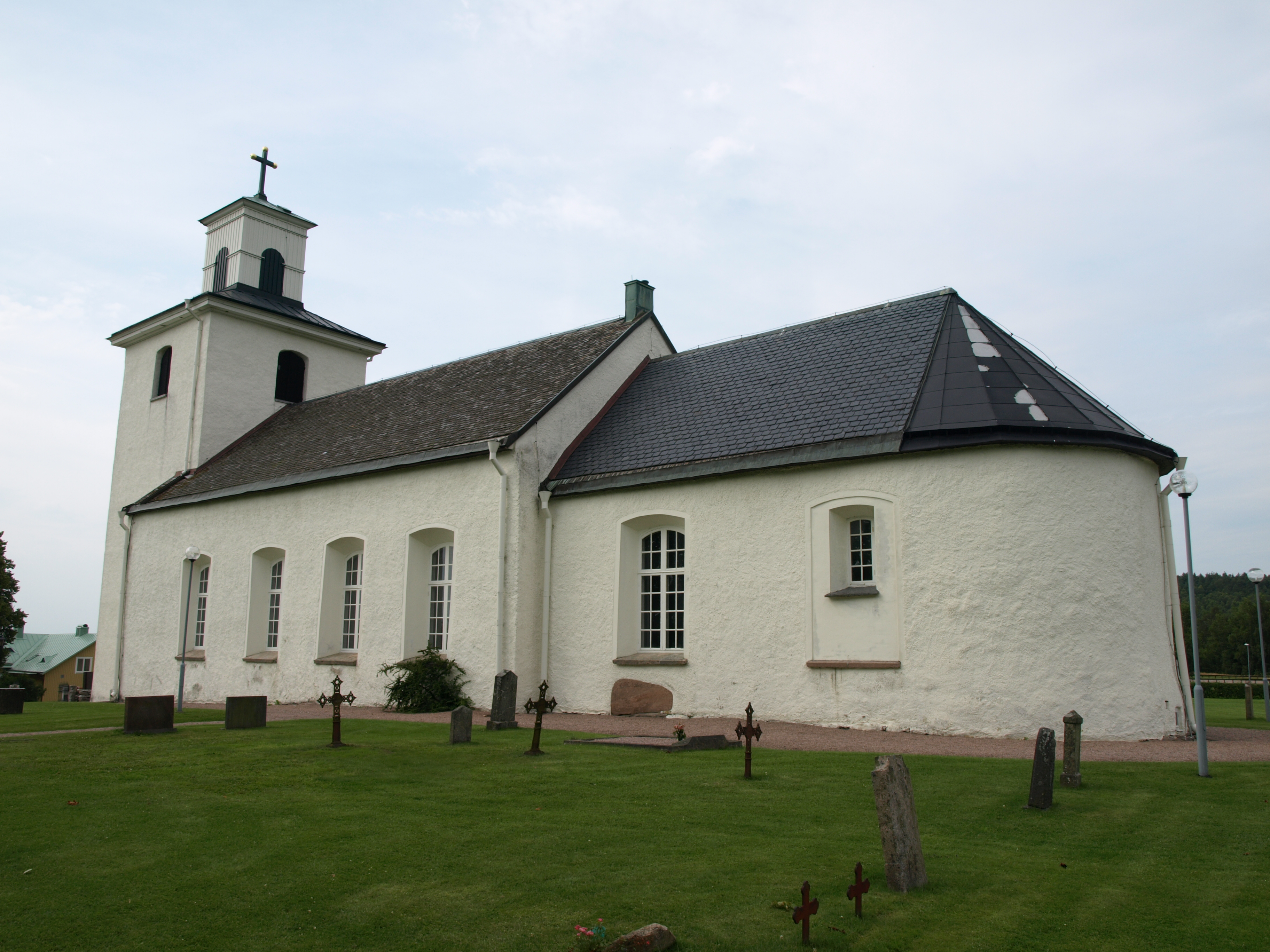 Kvibille church. Under one of the windows, the runestone Danmarks runeindskrifter 354 can be seen.